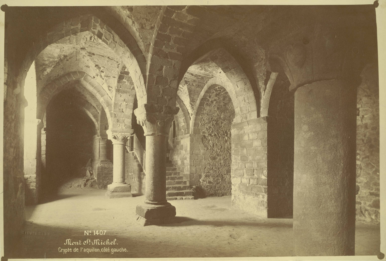 Collection: A. D. White Architectural Photographs, Cornell University Library Accession Number: 15/5/3090.01458 Title: Mont Saint-Michel Abbey. Crypt of the North Wind, Left Side Photographer: Séraphin Médéric Mieusement (French, 1840-1905) Photograph date: ca. 1874-ca. 1890 Building Date: ca. 1100-ca. 1199 Location: Europe: France; Mont Saint-Michel Materials: albumen print Image: 10.0394 x 15.0394 in.; 25.5 x 38.2 cm Style: Gothic Provenance: Gift of Andrew Dickson White Persistent URI: There are no known copyright restrictions on this image. The digital file is owned by the Cornell University Library which is making it freely available with the request that, when possible, the Library be credited as its source. We had some help with the geocoding from